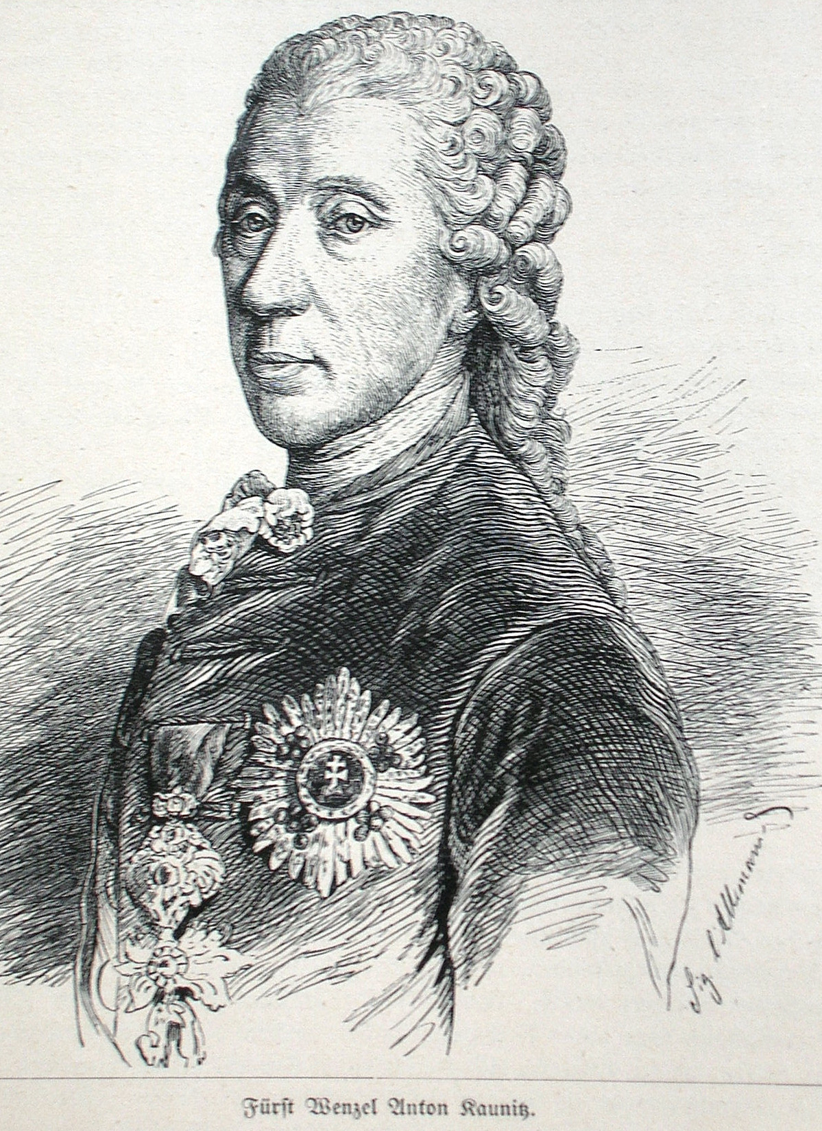 Wenzel Anton Graf Kaunitz was an Austrian statesman and diplomat